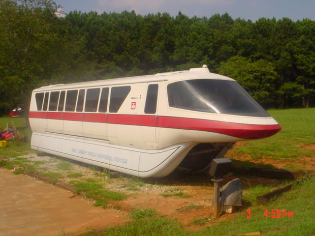 Photo of Mark IV Monorail Red outside Chip Young's house.